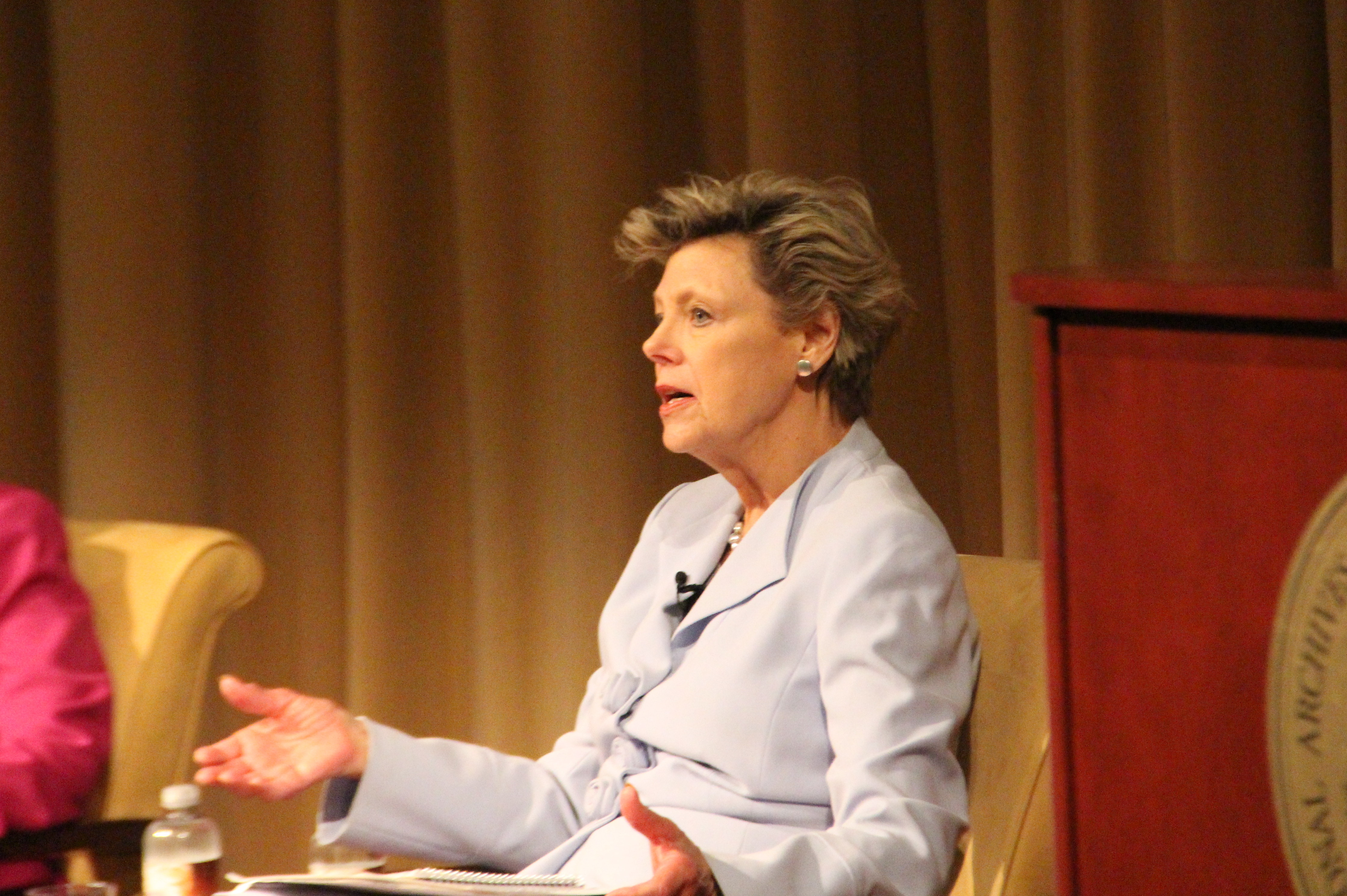 11th Annual McGowan Forum on Women in Leadership, National Archives, April 19, 2018